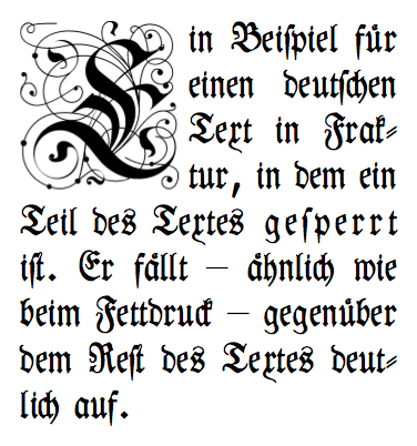 Second example for Emphasis (typography) page. Created with the GIMP; no copyright problems.